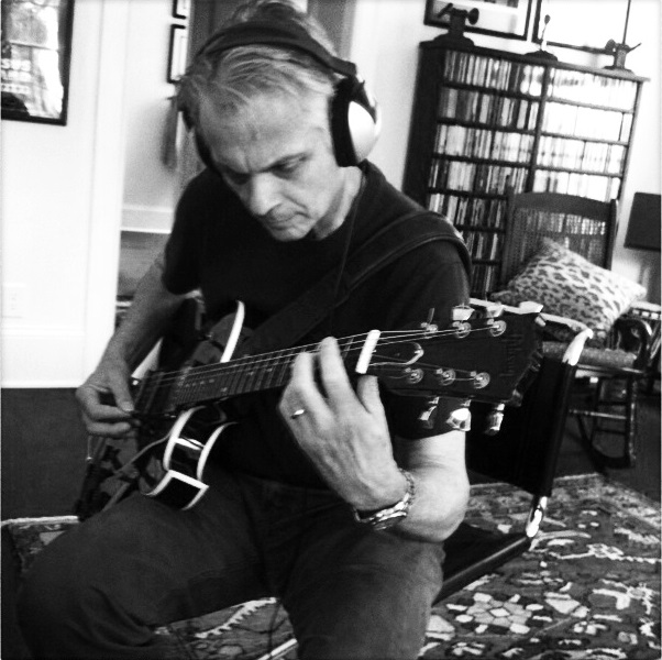 Duane Denison at his home studio in 2017